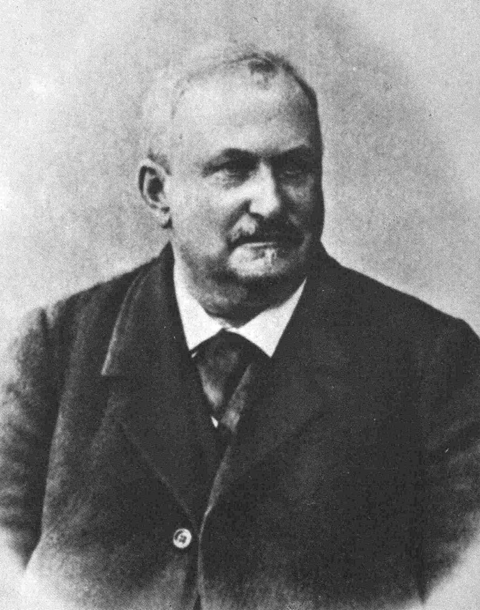 Estonian problemist Friedrich Ludwig Amelung (1842-1909)